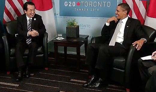 Naoto Kan, Prime Minister, and Barack Obama, President, spoke to the press after meeting at the 2010 G-20 Toronto summit in Toronto City, Ontario Province on June 27, 2010.